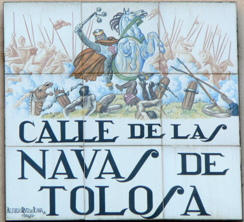 Sign of Calle de las Navas de Tolosa (street, Centro district) in Madrid (Spain).